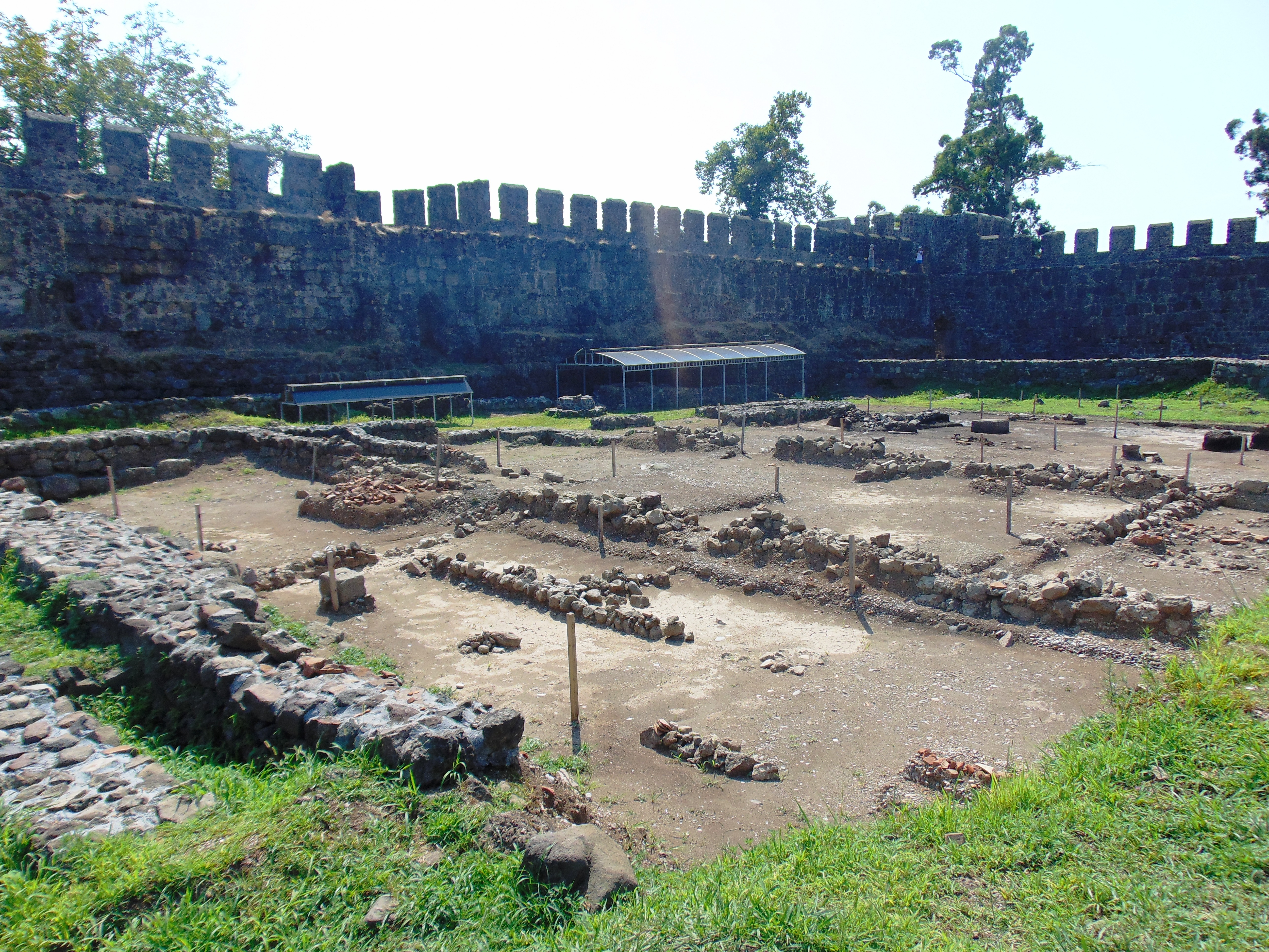 Gonio Fortress at Batumi, Adjara, Georgia